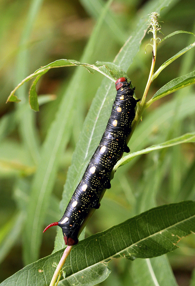 Caterpillar of the Bedstraw Hawk-Moth